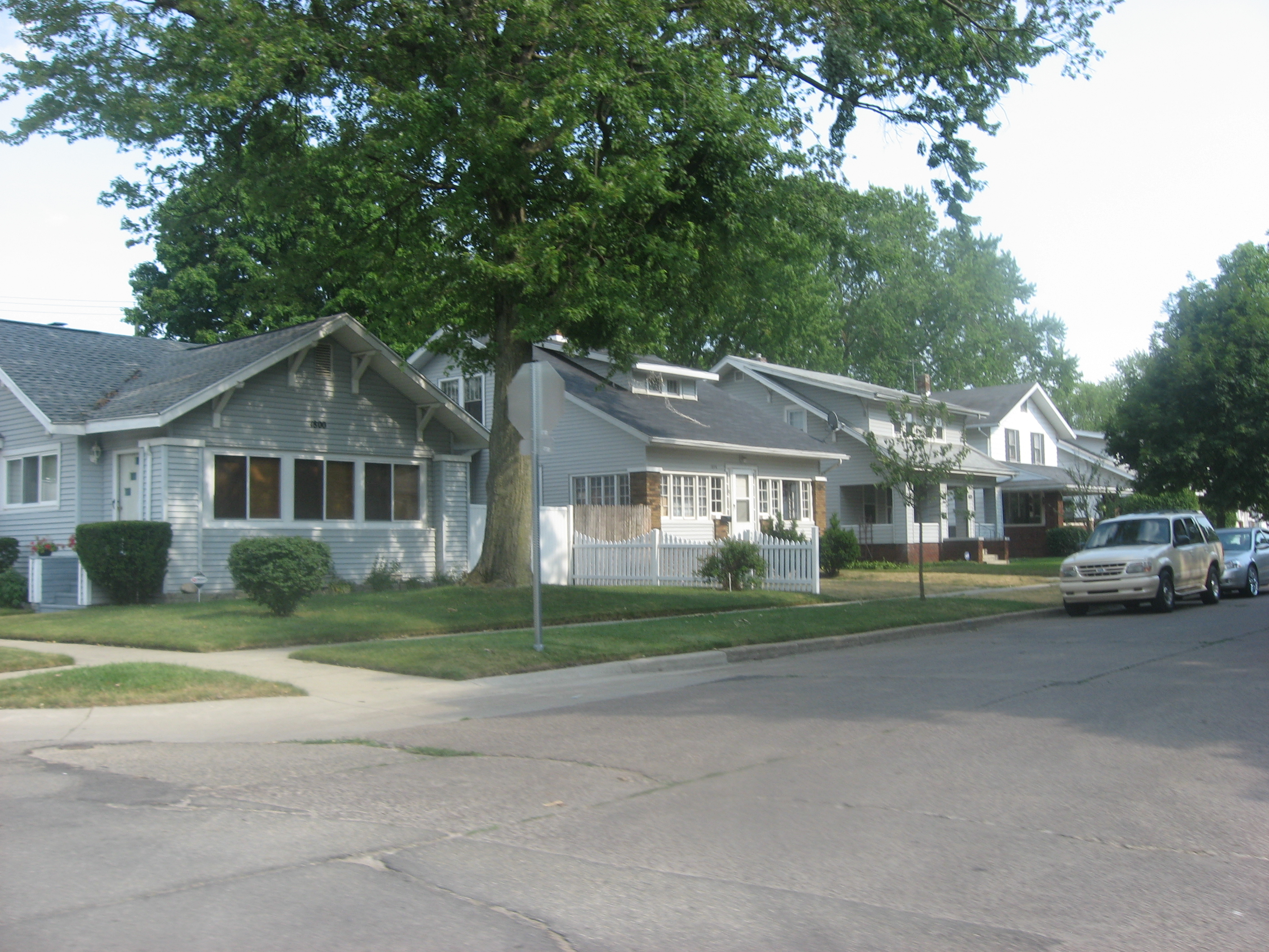 Houses on the eastern side of the 1800 block of S. Stevens Avenue in Elkhart, Indiana, United States. This block is part of the Morehouse Residential Historic District, a historic district that is listed in the National Register of Historic Places.